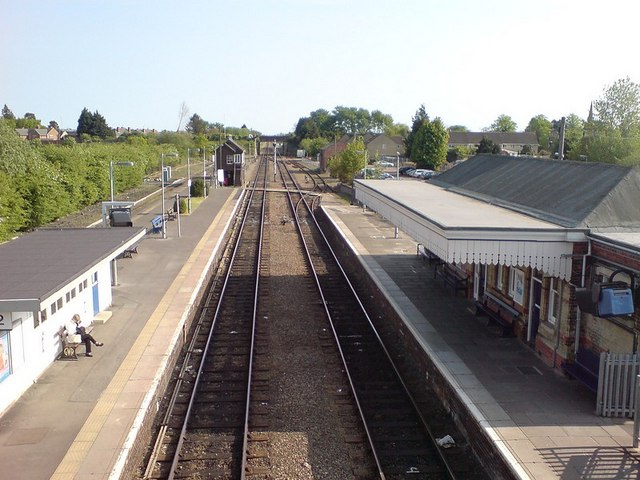 Moreton-in-Marsh Station, looking south